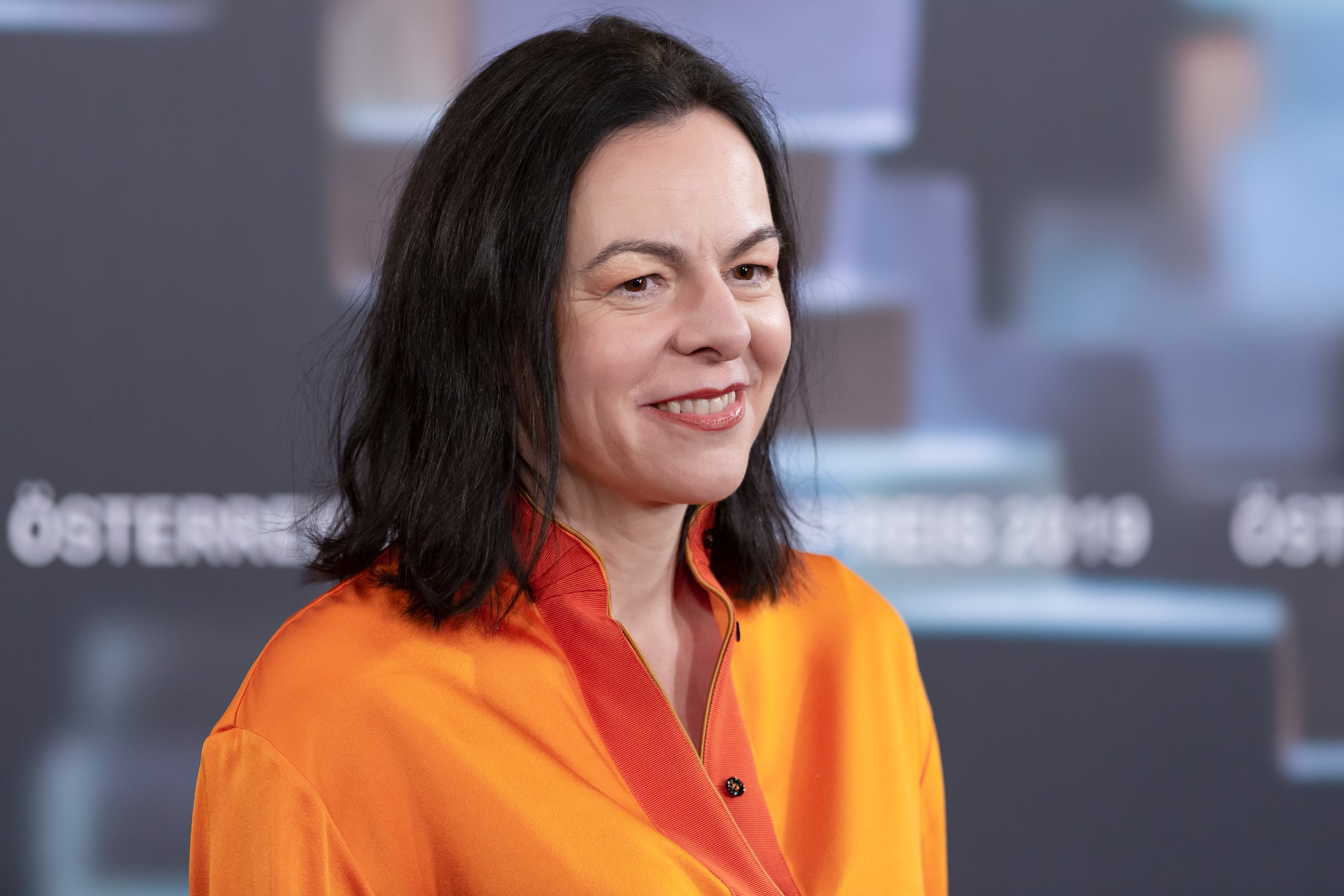 Monika Willi, photo call at the Austrian Film Awards 2019 (Rathaus, Vienna,Austria).